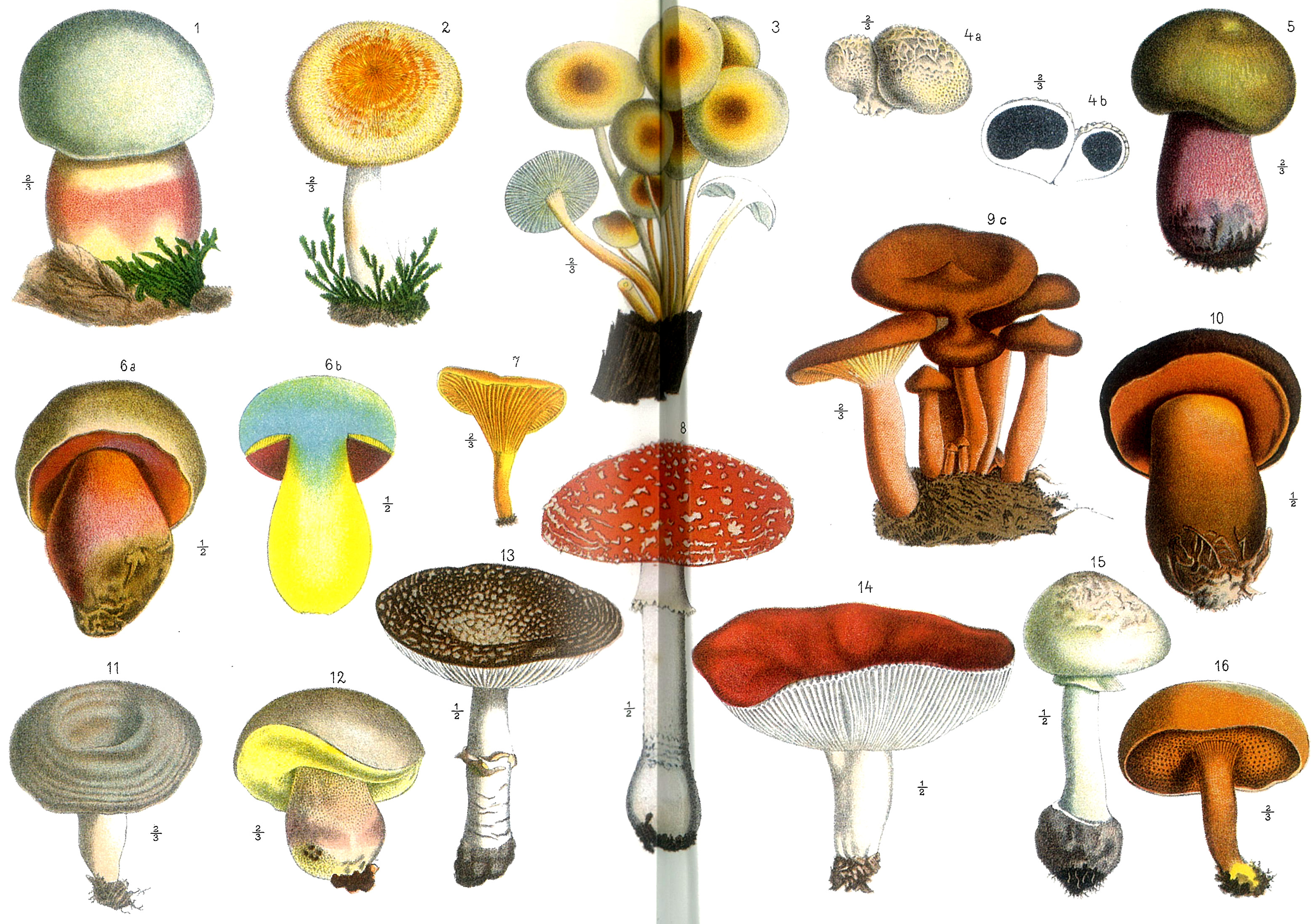 Poisonous and suspicious mushrooms in Otto's Encyclopedia (1897).